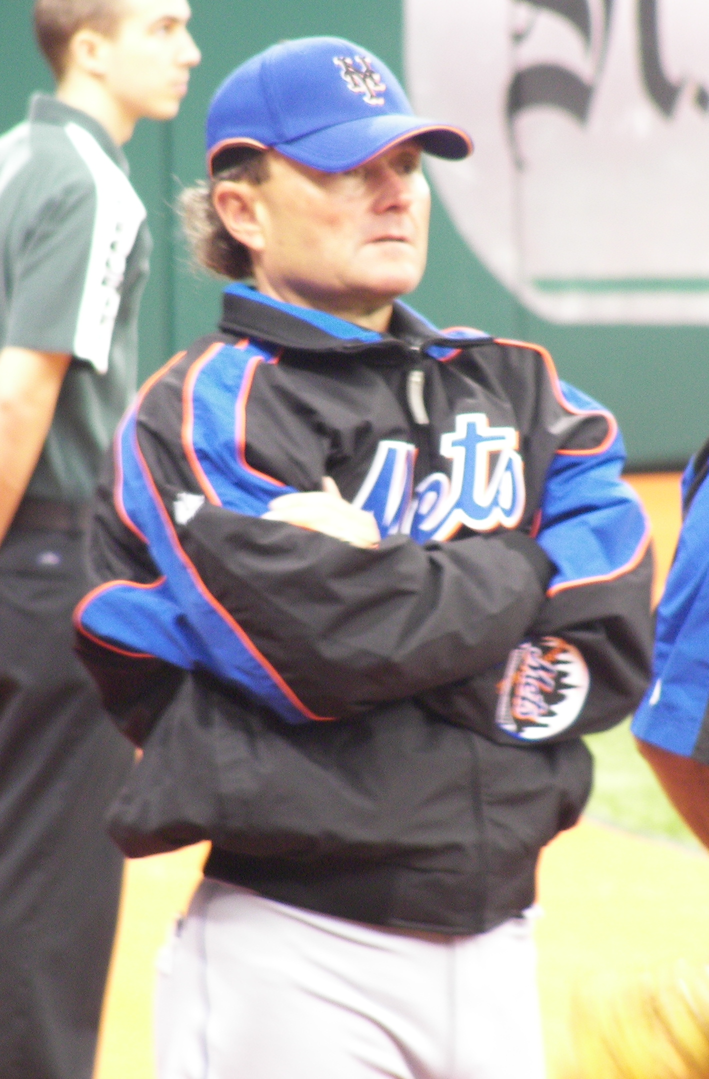 New York Mets pitching coach Rick Peterson before a Mets/Devil Rays spring training game at Tropicana Field in St. Petersburg, Florida.